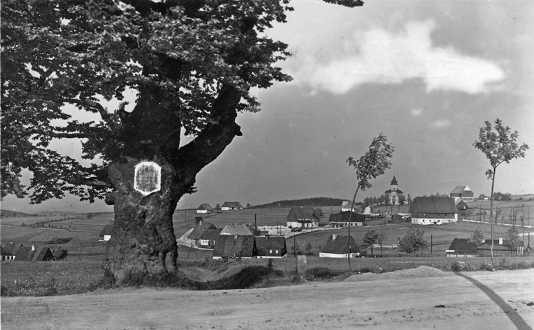 Memorable boundary tree (beech) in Cinovec, Czech Republic